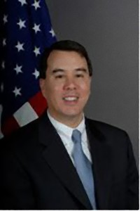 John Rood Acting Under Secretary of State for Arms Control and International Security